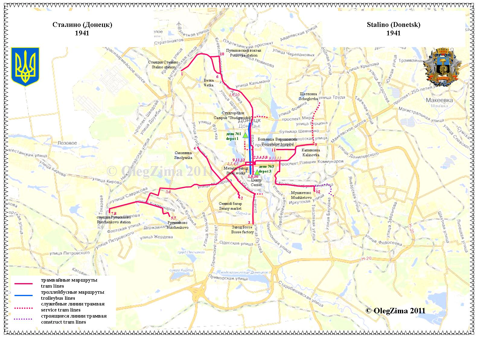 Transport map of Donetsk city at 1941